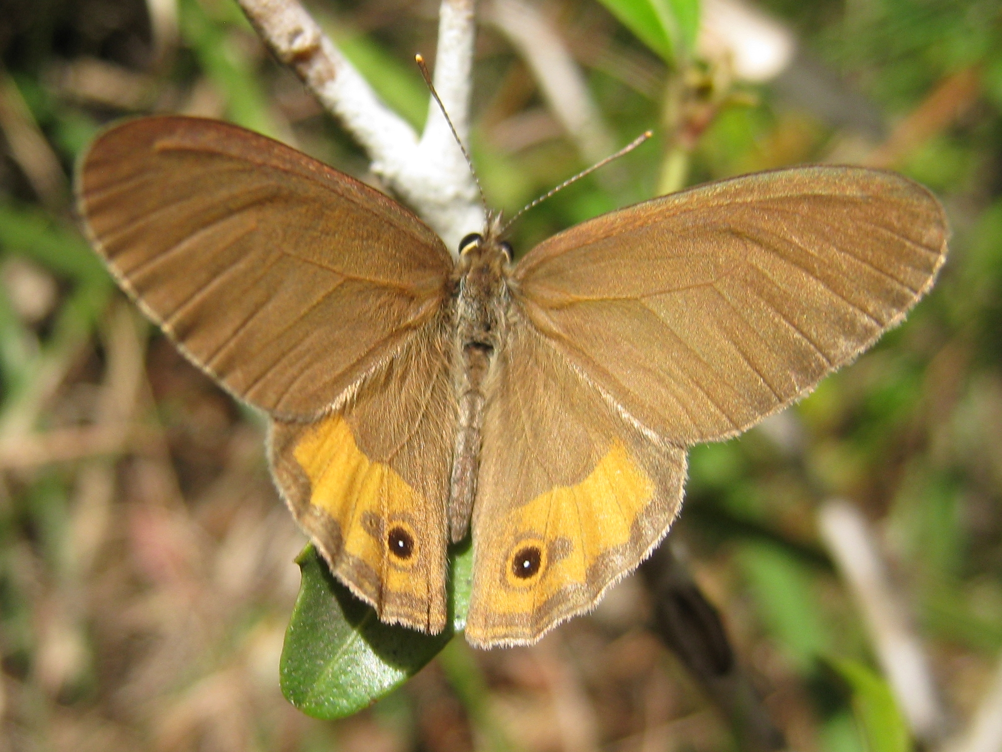 Grey Ringlet, Hypocysta pseudirius. Paruna Reserve, Como NSW, Australia, October 2010.